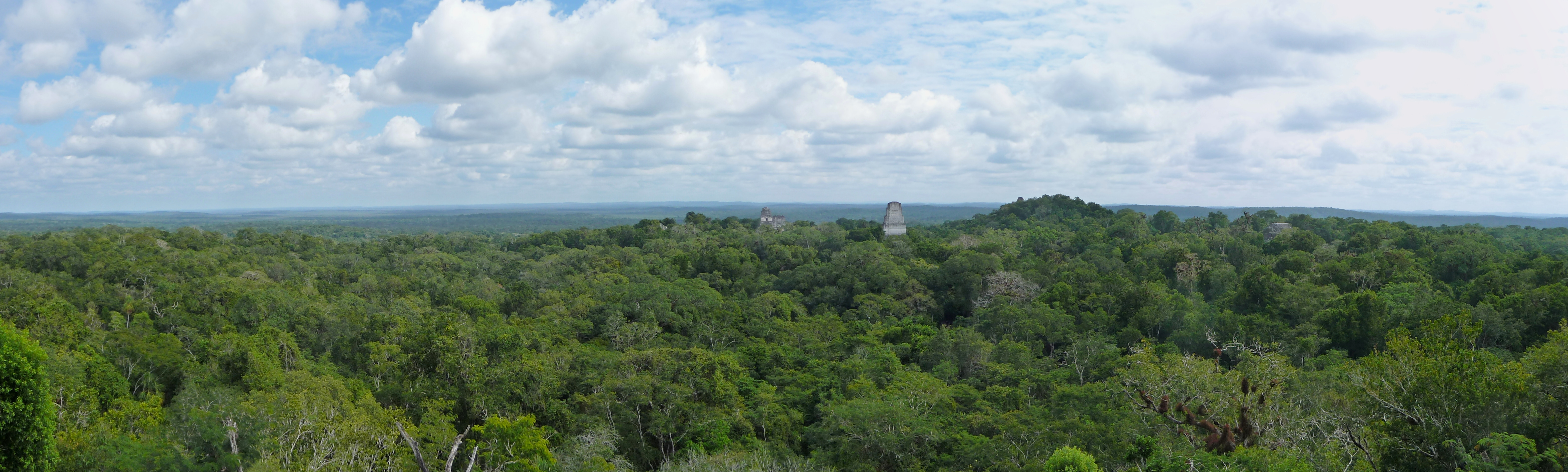 View on Tikal and the landscape of Petén from the Temple IV of Tikal (Petén, Guatemala).